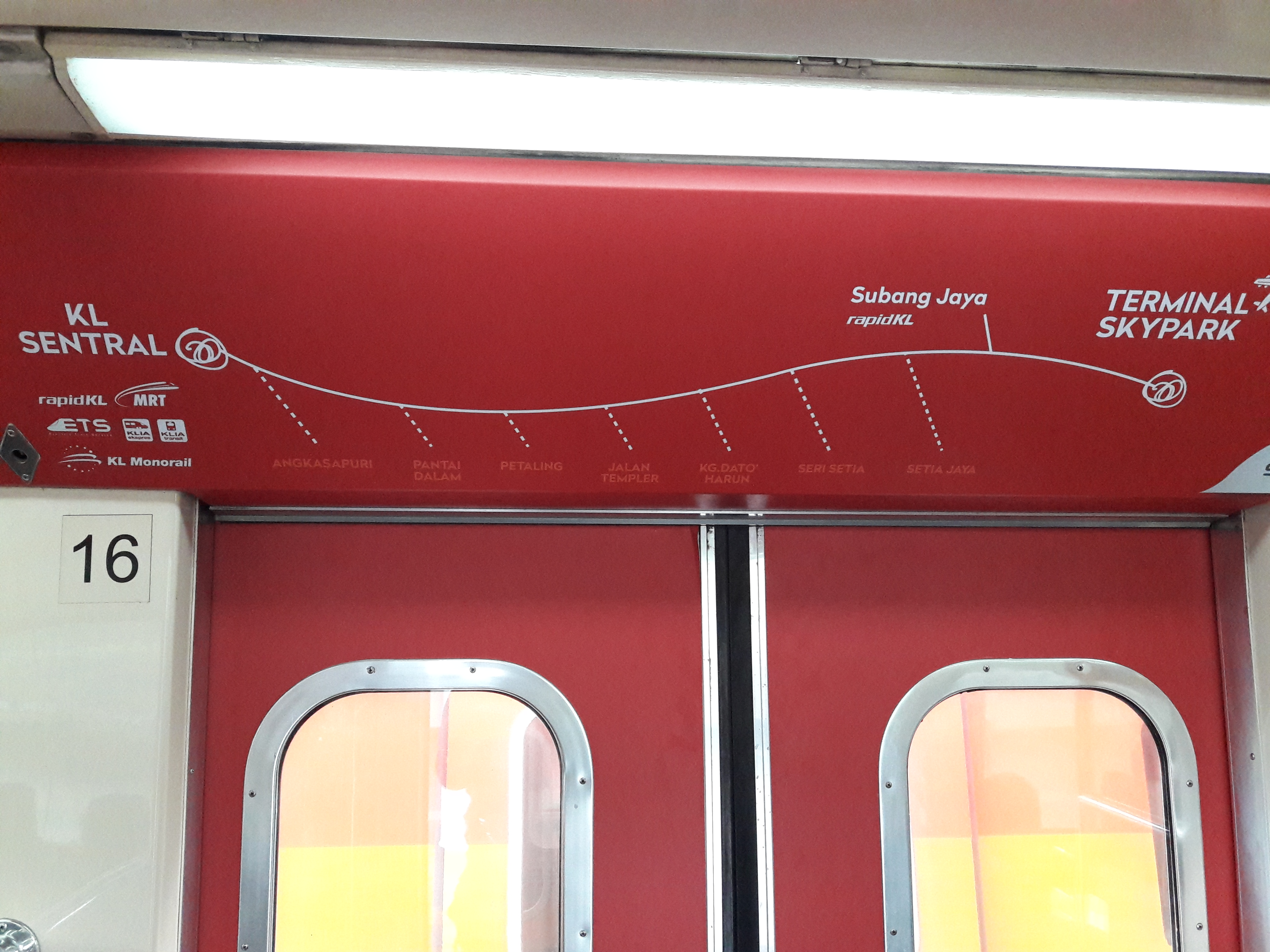 KTM Skypark Link route map, Malaysia